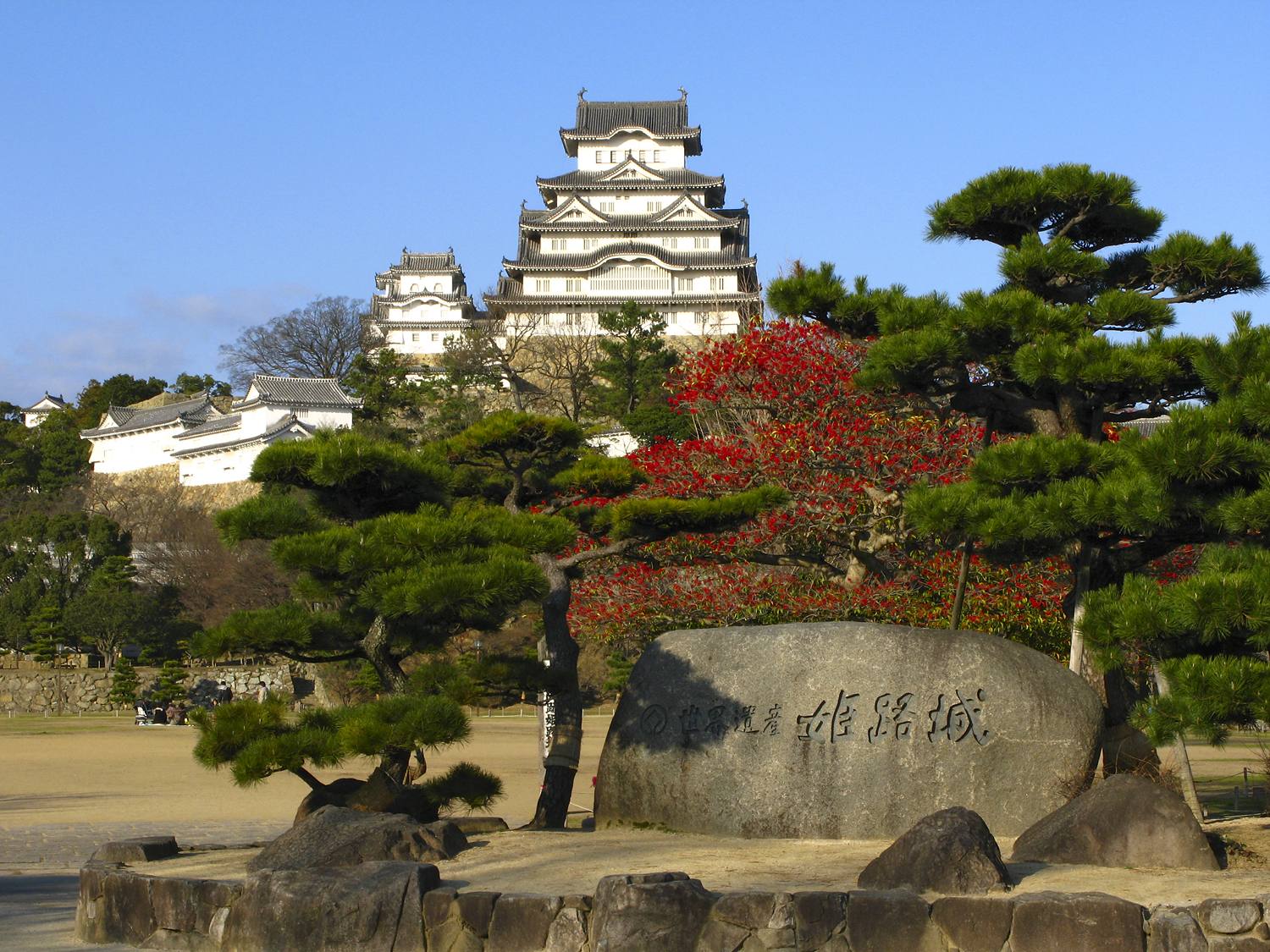 Himeji Castle, Himeji, Hyogo, Japan. The stone in the foreground proclaims this as a World Heritage Site. I took this photo and contribute my rights in the file to the public domain.